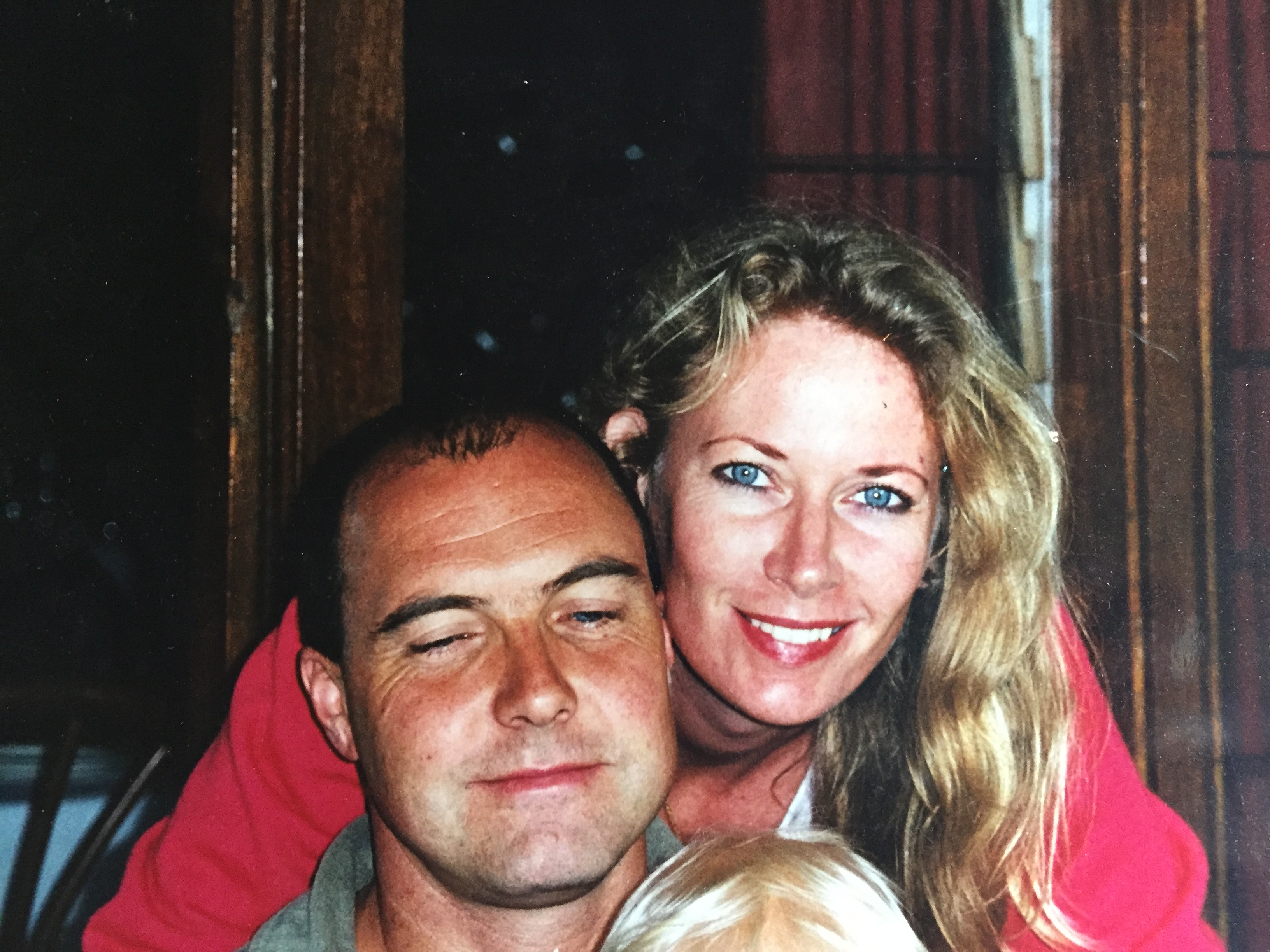 Photo of Joseph Comerford